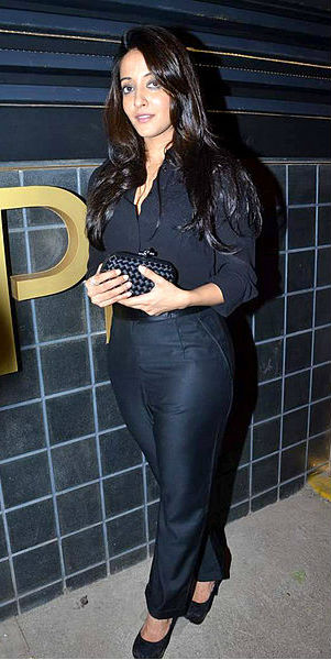 Raima sen